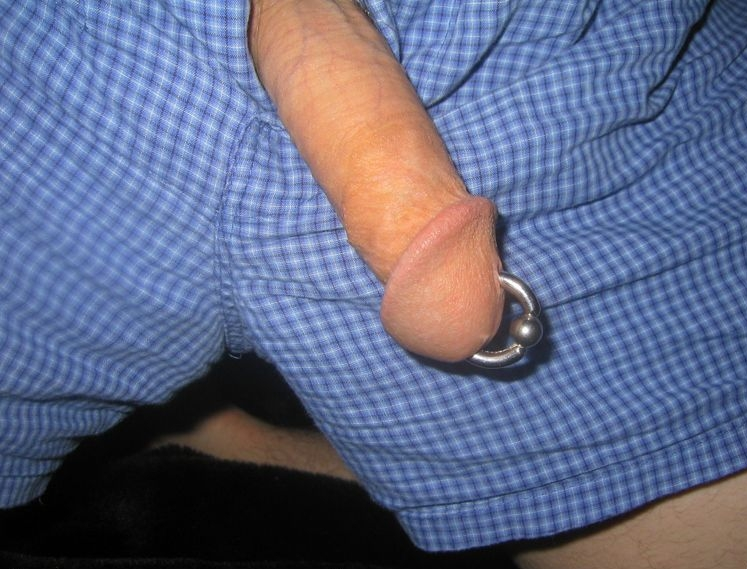 Ball Closure Ring in Reverse Prince Albert Piercing